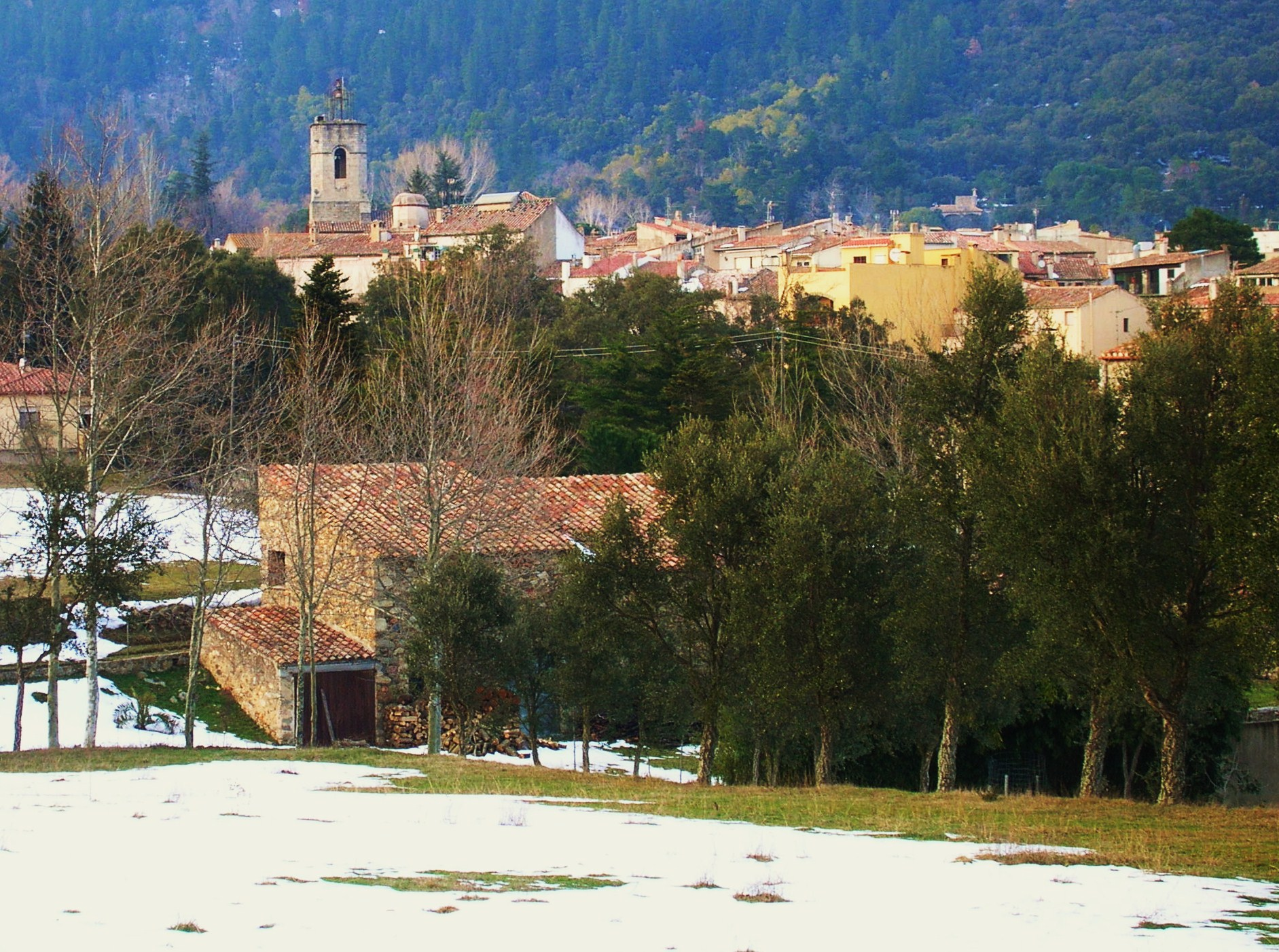 Maçanet de Cabrenys, Catalonia, December 2009